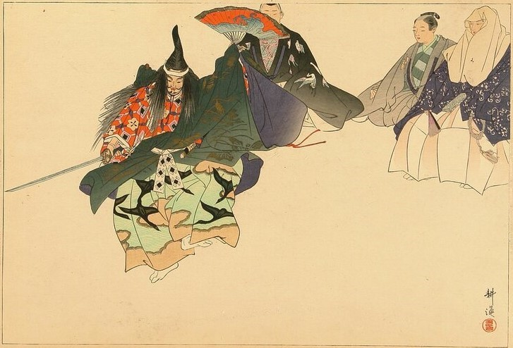 Scene fron Nô-play "Shunzei Tadanori"